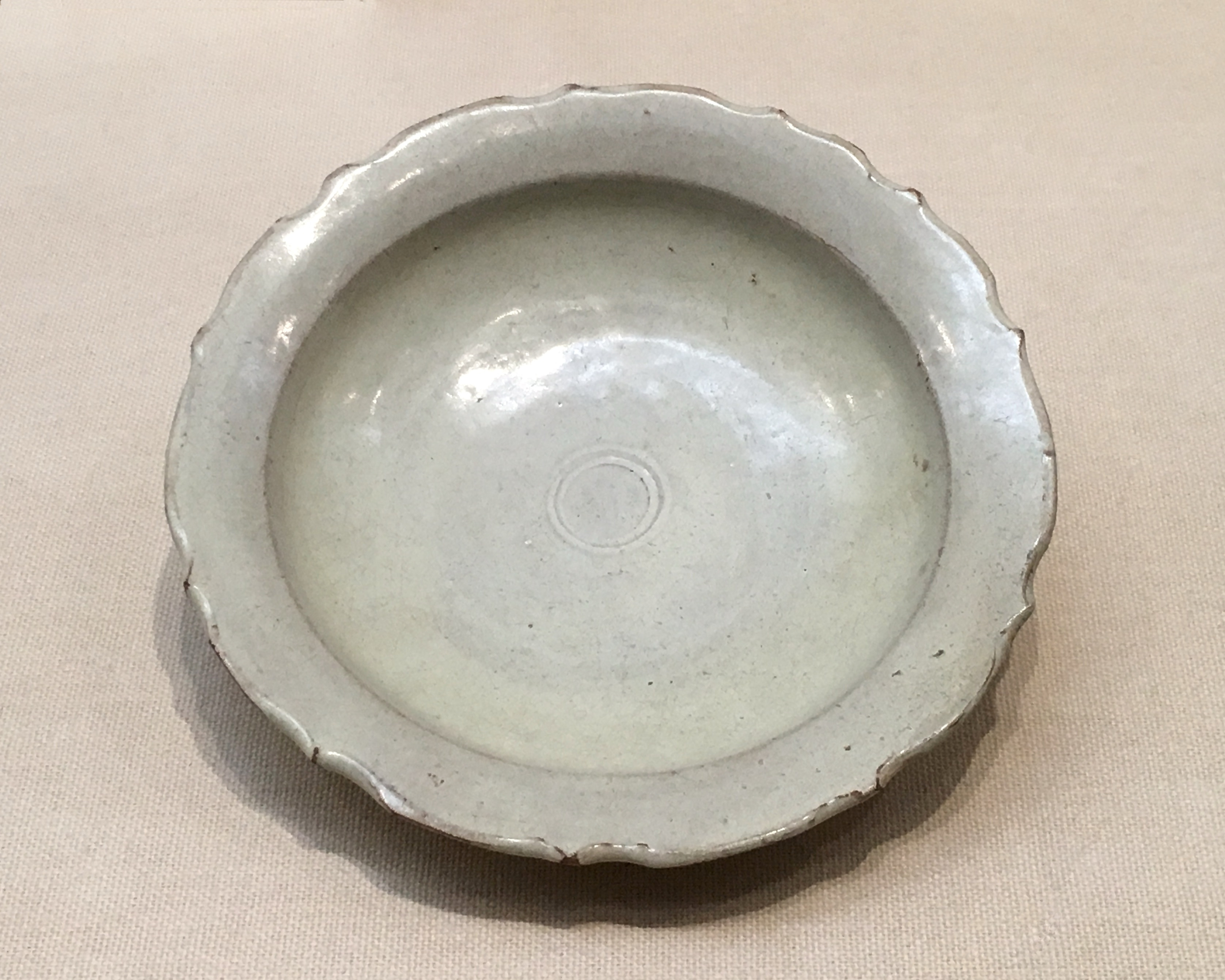 Foliated-dish, white glaze Myanmar 15-16th century Aichi Prefectural Ceramic Museum (Gift of Ms. Nishigaki Chiyoko)